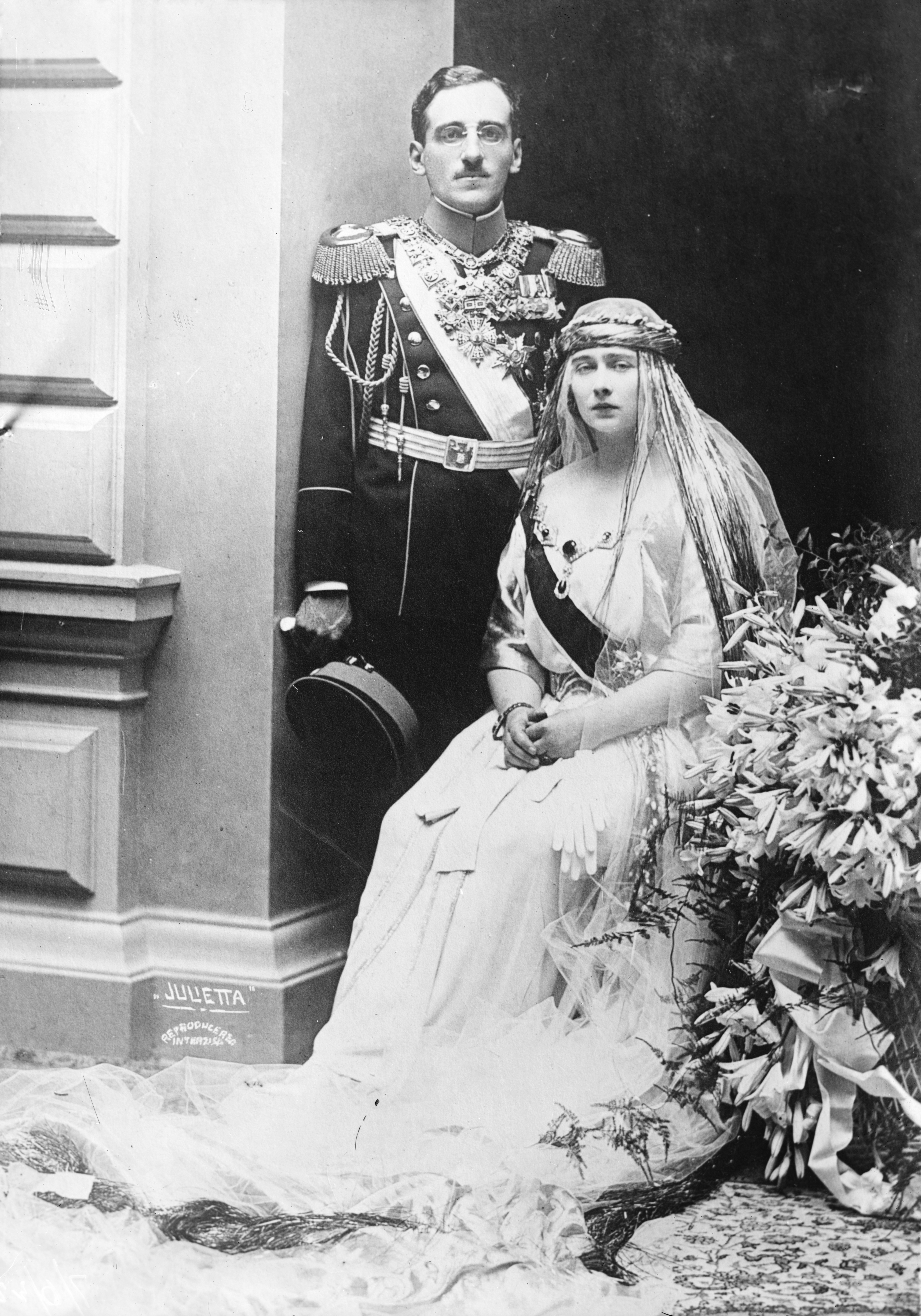 King Alexander I of Yougoslavia and Queen Maria